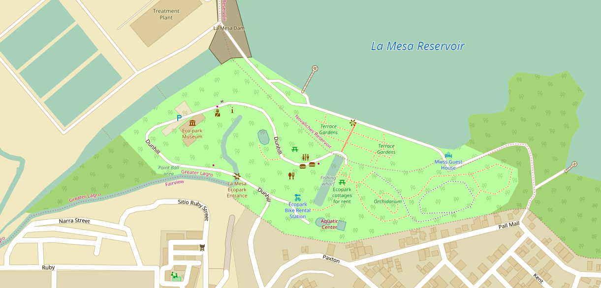 Map of La Mesa EcoPark Open Street